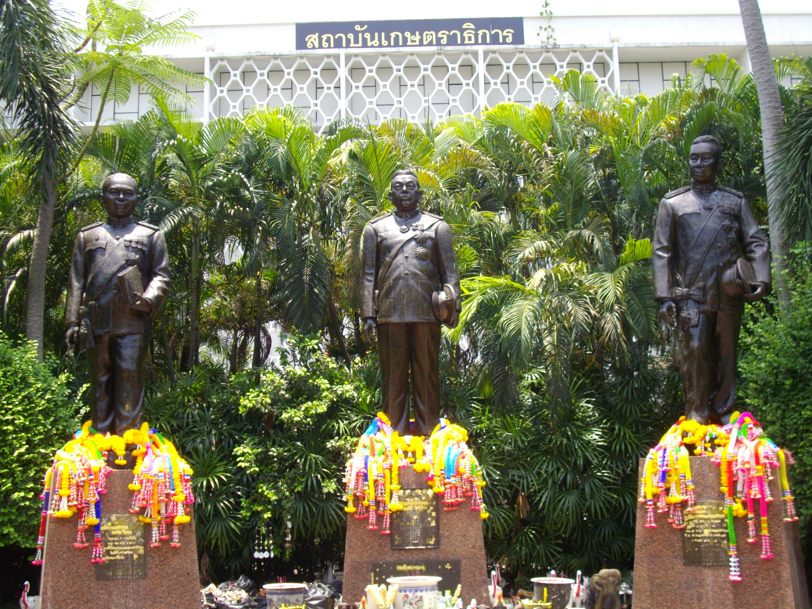 Monuments of the 3 Masters of Kasetsart University, from left, Phra Chuangkasetsilapakan (พระช่วงเกษตรศิลปการ), Luang Suvarnavachakakasikij (หลวงสุวรรณวาจกกสิกิจ), Luang Ingasrikasikan (หลวงอิงคศรีกสิการ). These monuments are situated in front of Kasetrathikarn Institute, inside Kasetsart University, Bangkok, Thailand.